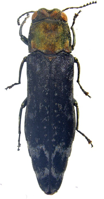 Agrilus trepanatus Jendek 2013, holotype.